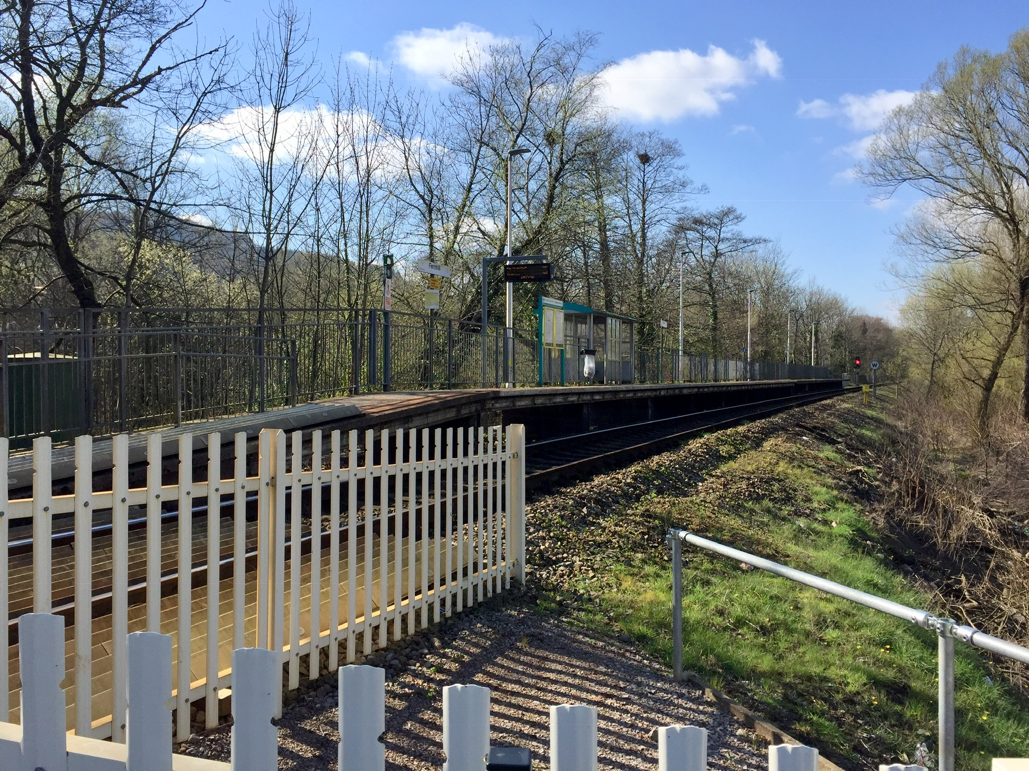 Fernhill railway station